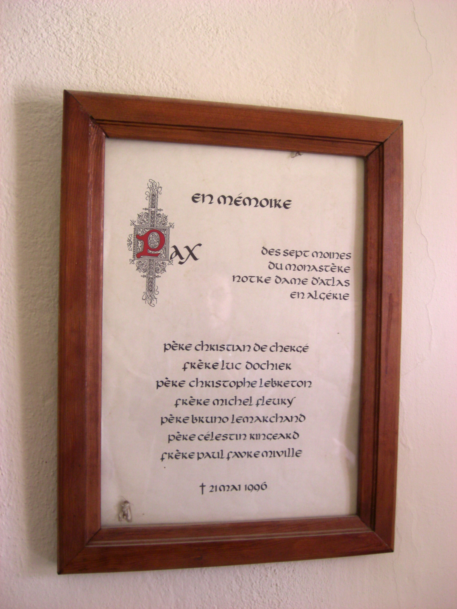 Names of the seven monks of Tibhirine